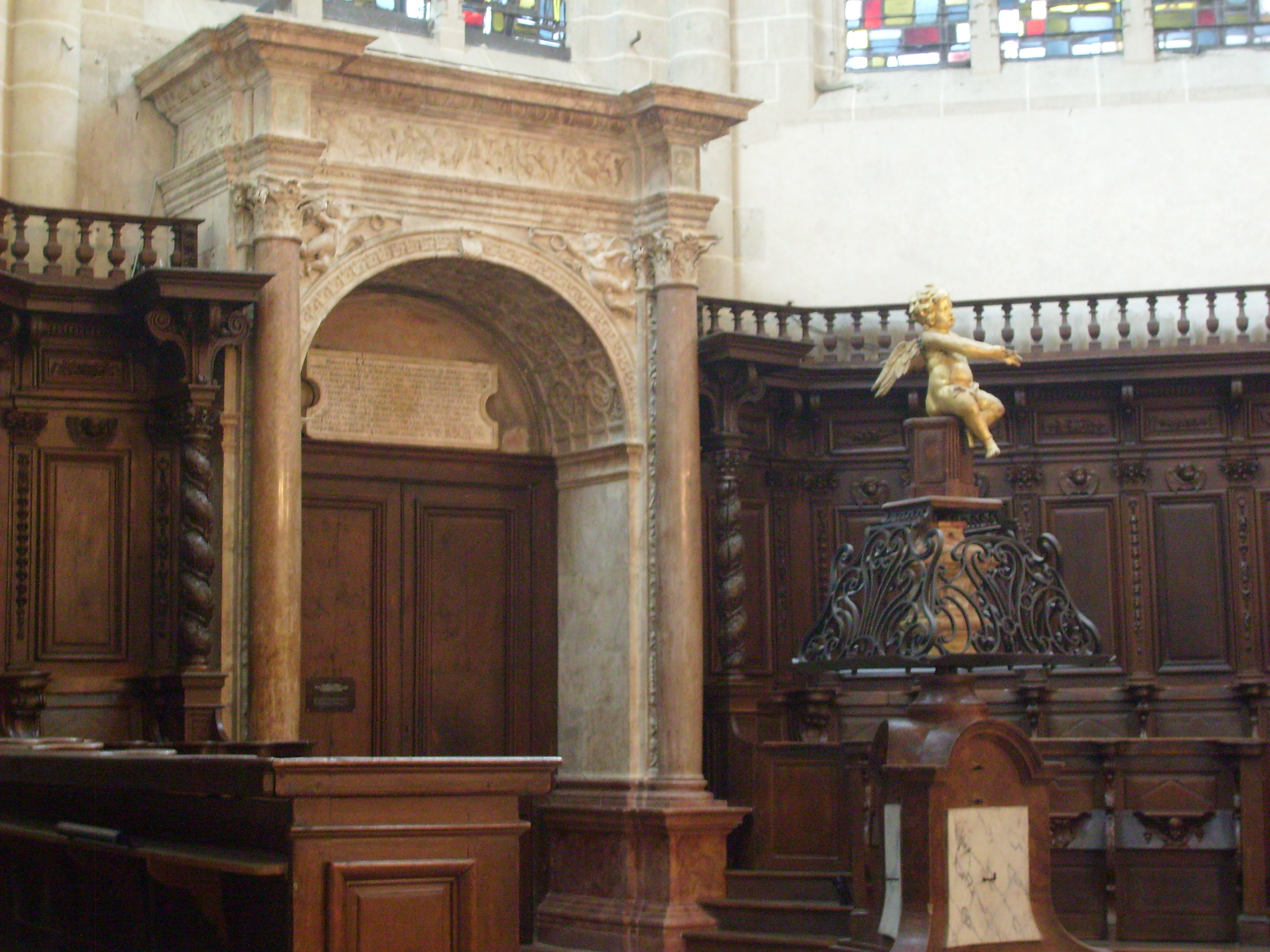 Tomb of Jean Carondelet Emperor Maximilien of Hapsburg's chancellor of Flanders and Burgundy built in 1501 in the Basilica our Lady of Dole, Jura, France